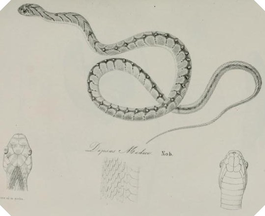 Engraving of the "dipsas medici" (or "dasypeltis medici") from a drawing by Giovanni Giuseppe Bianconi, italian naturalist.